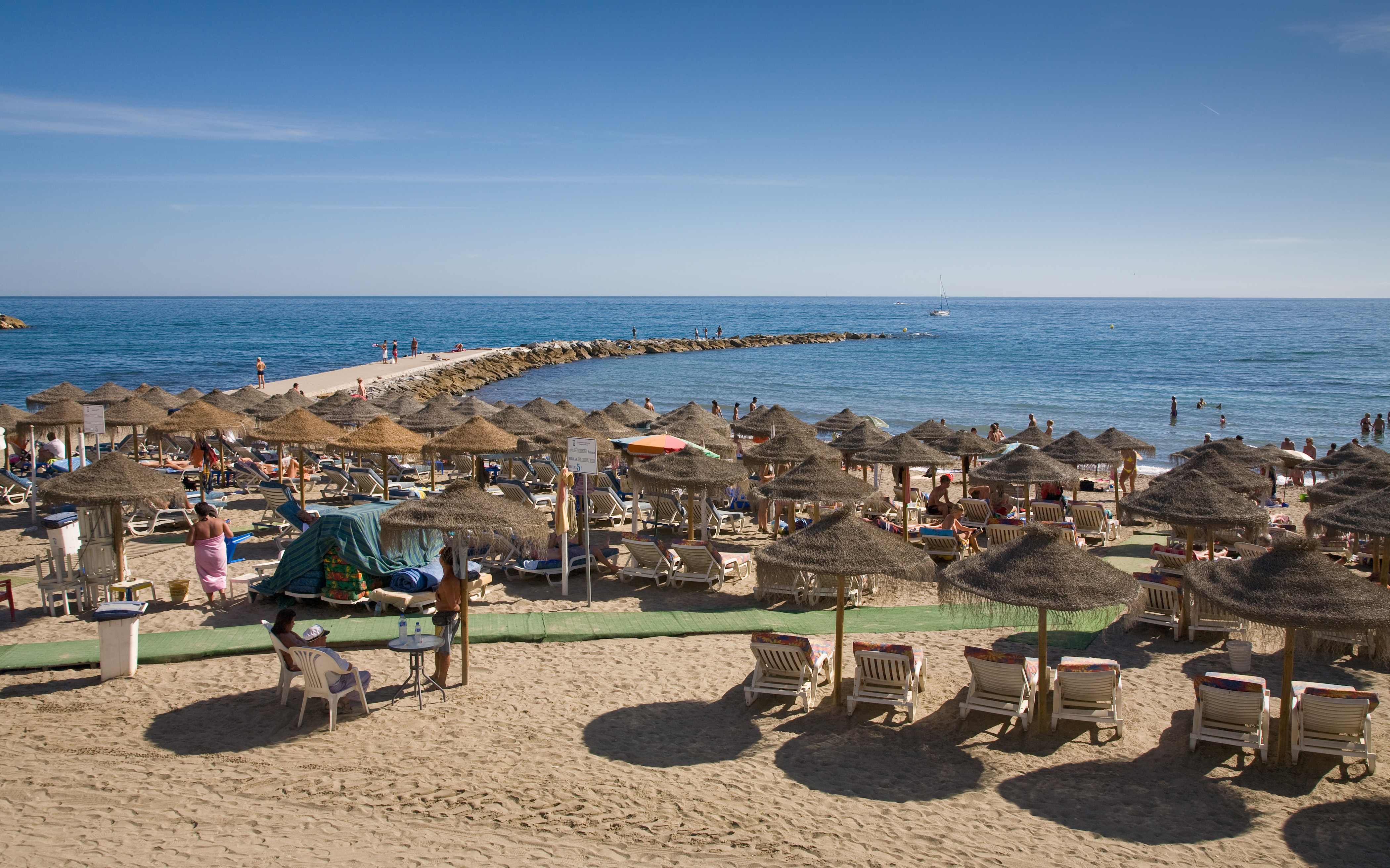 The beach in Marbella in the Costa Del Sol, Spain.